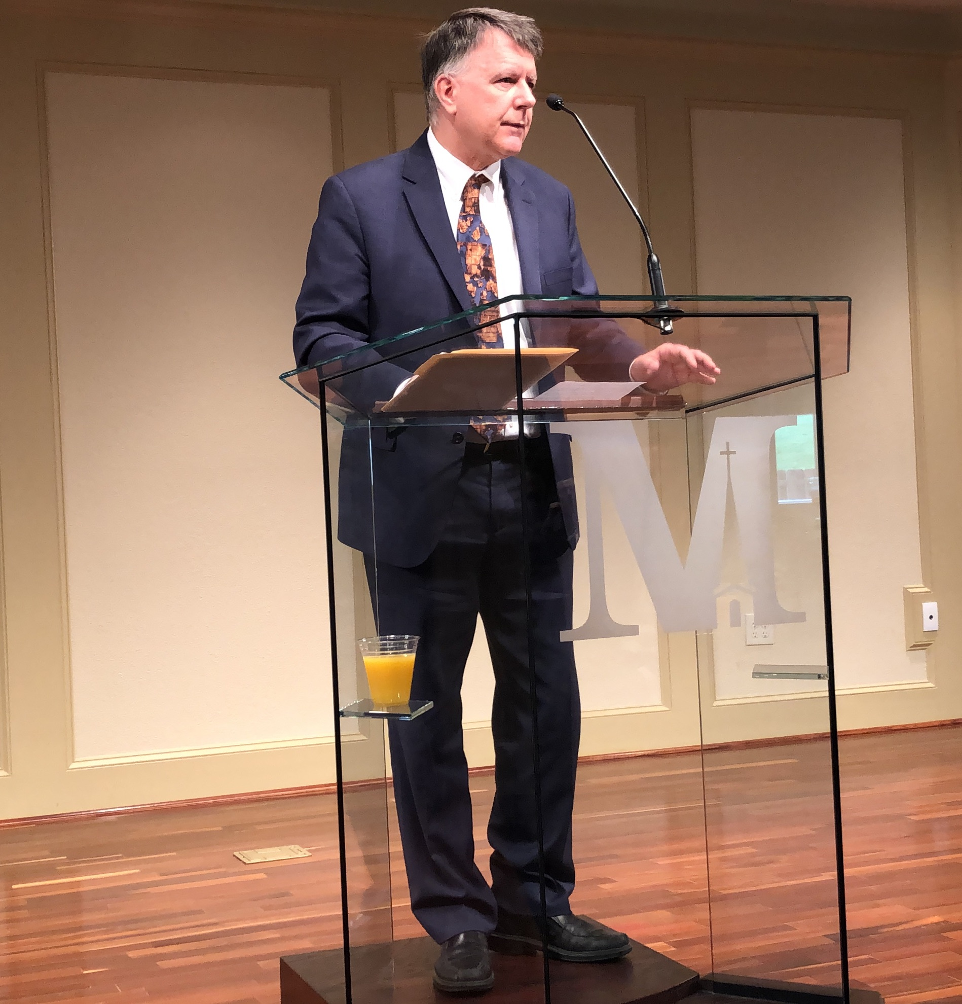 Andreas Köstenberger Lecturing at a podium on the campus of MBTS